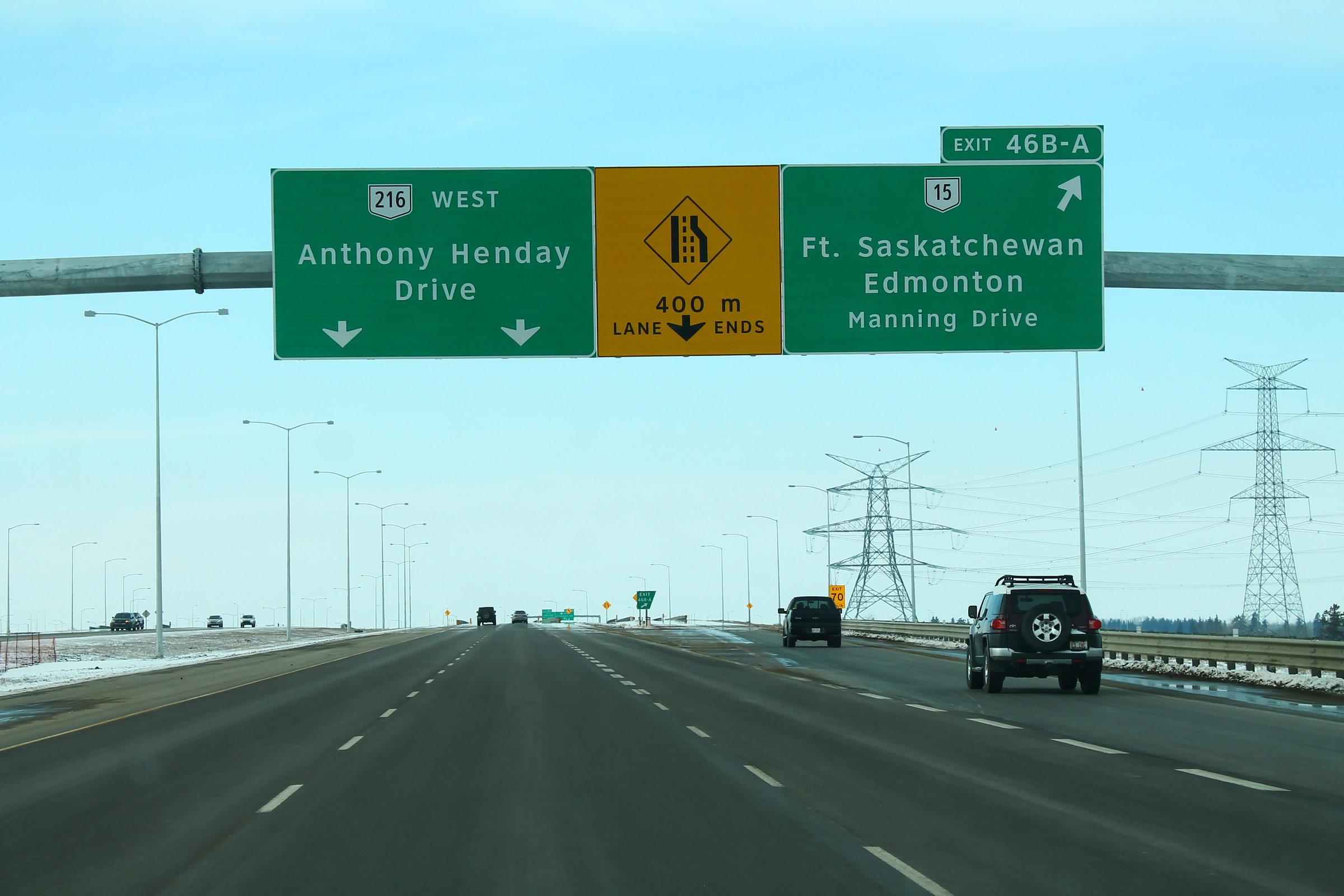 Westbound on Anthony Henday Drive approaching exit 46B in Edmonton, Alberta, Canada.